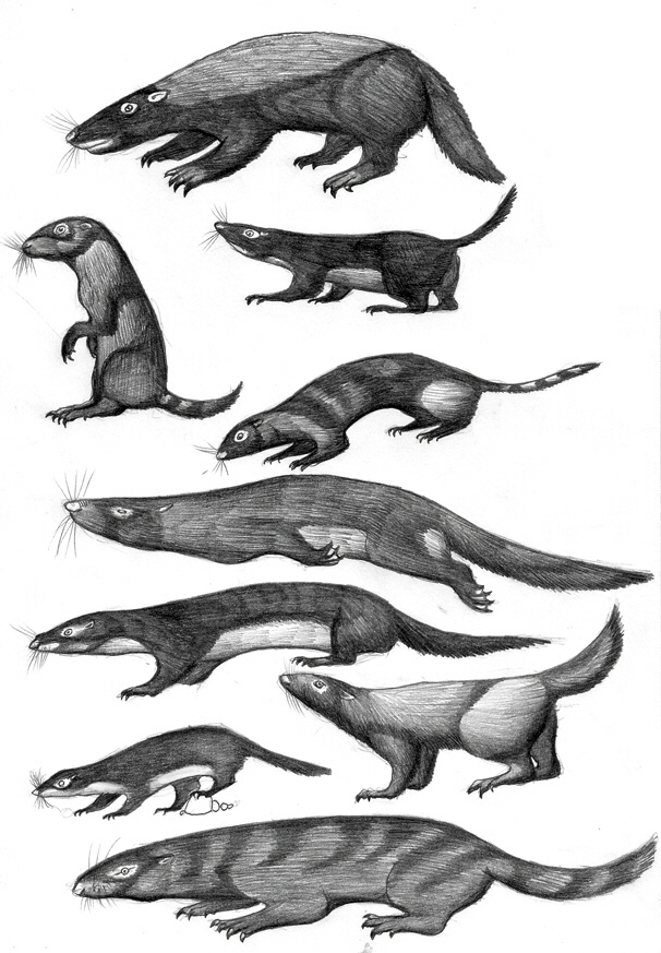 Pusillonecatorids, speculative mammals in an alternative world of dinosaurs. They are metatherian marsupials that have convergently evolved into the roles of mustelids (which in our world are eutherian placental mammals). Discussion of notability